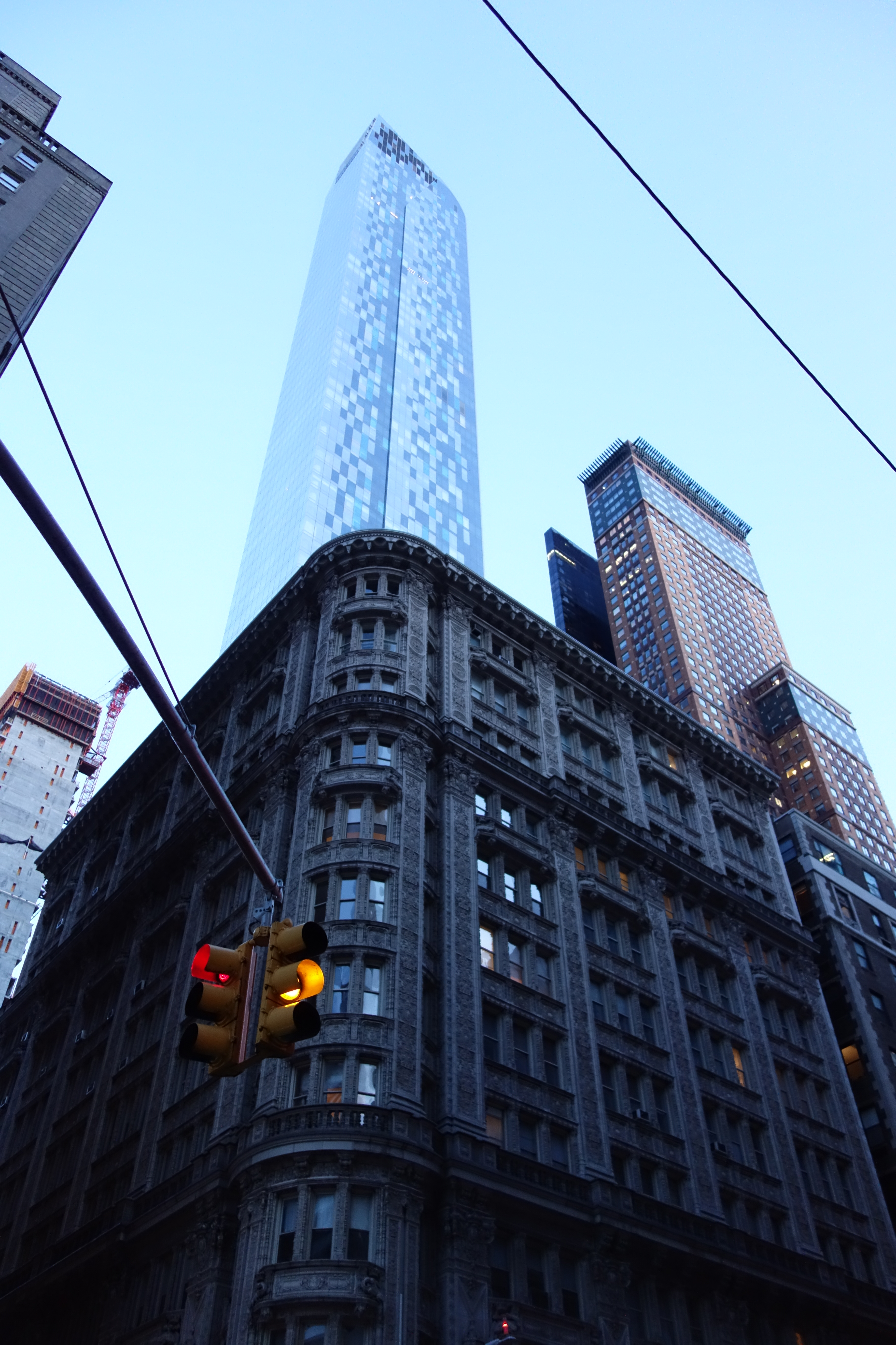 Looking southeast at Alwyn Court, at 7th Avenue and 58th Street in Midtown Manhattan.